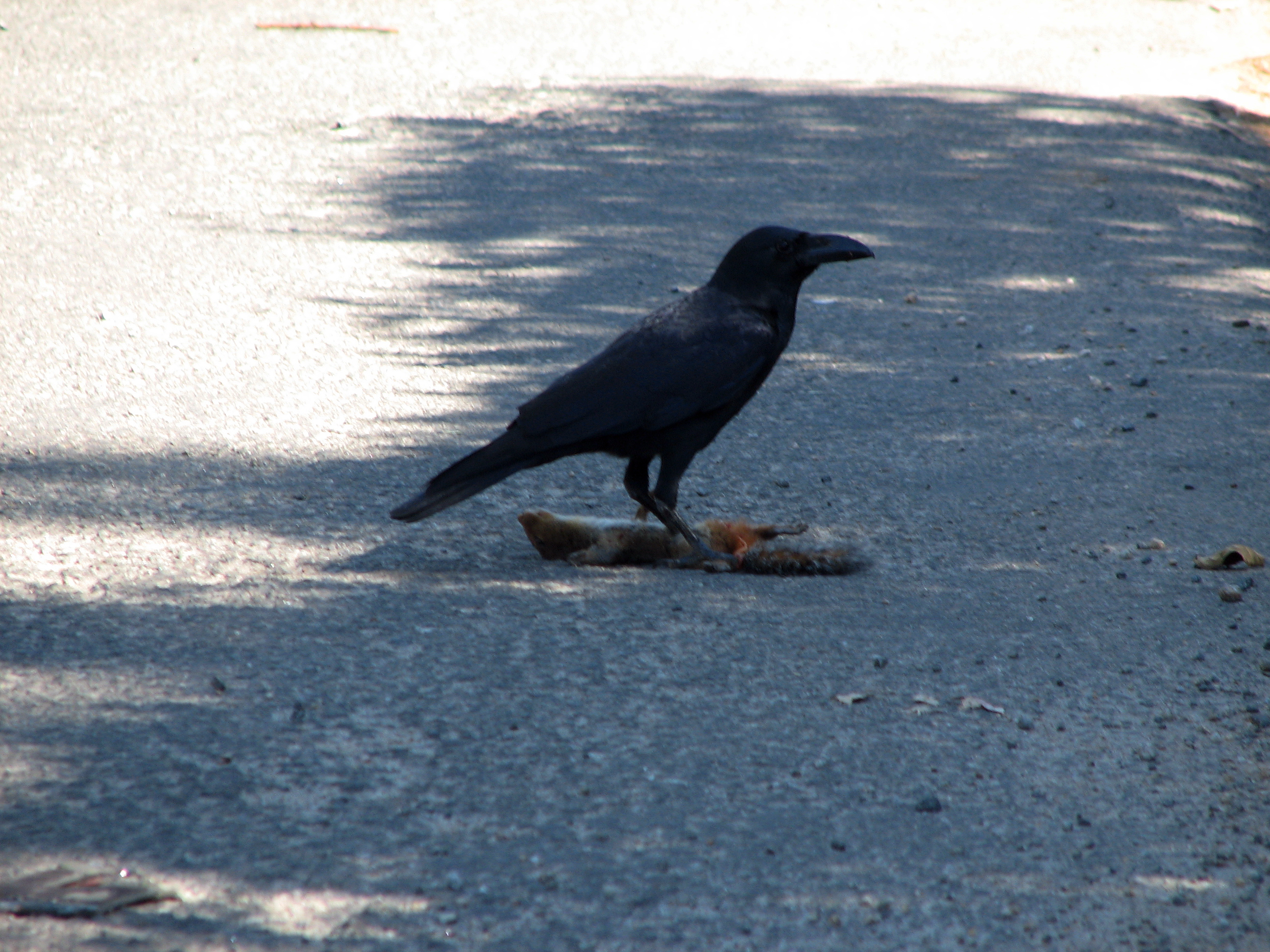 Large billed crow on western ghats palm squirrel roadkill